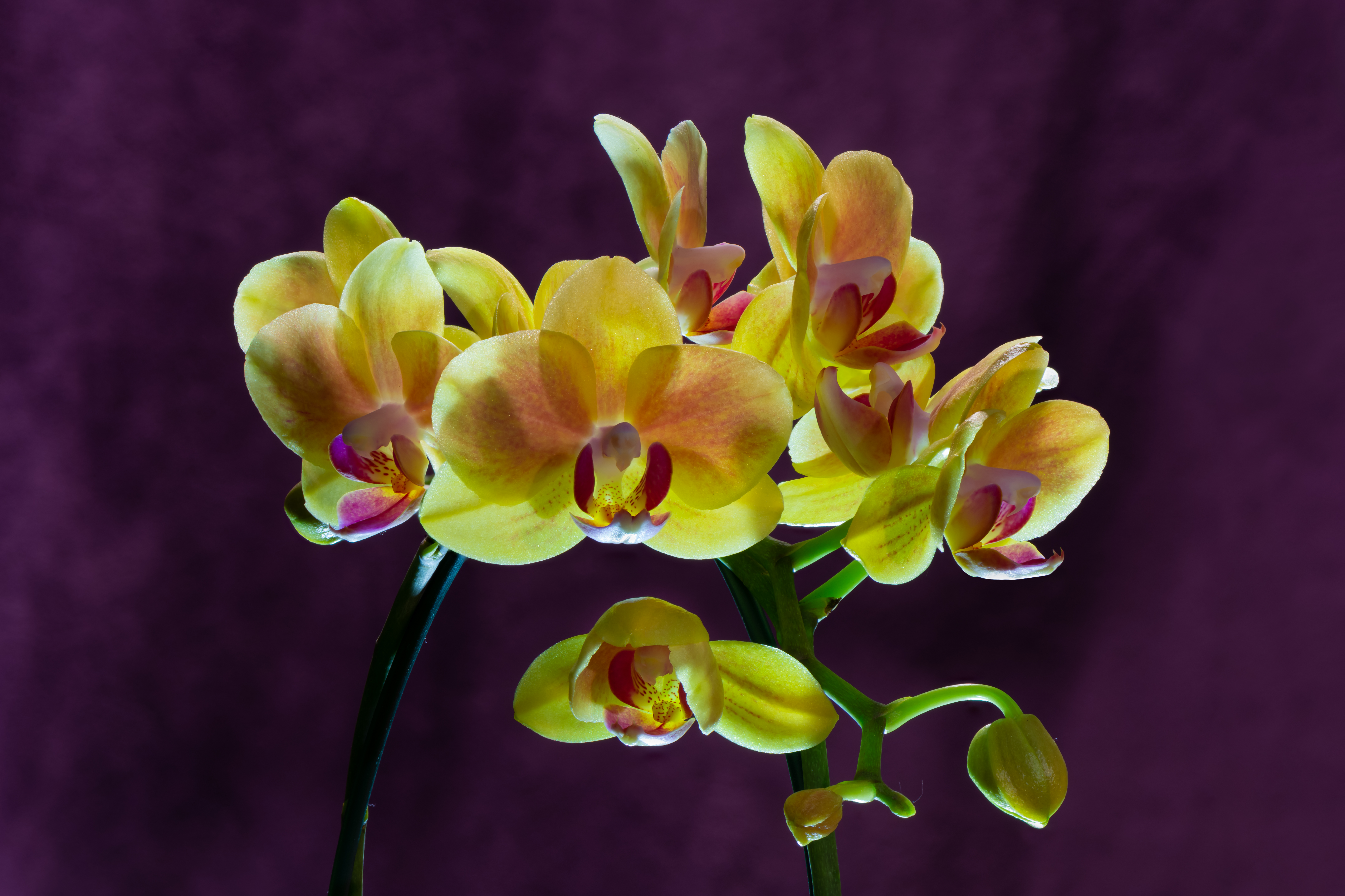 White Phalaenopsis cultivar